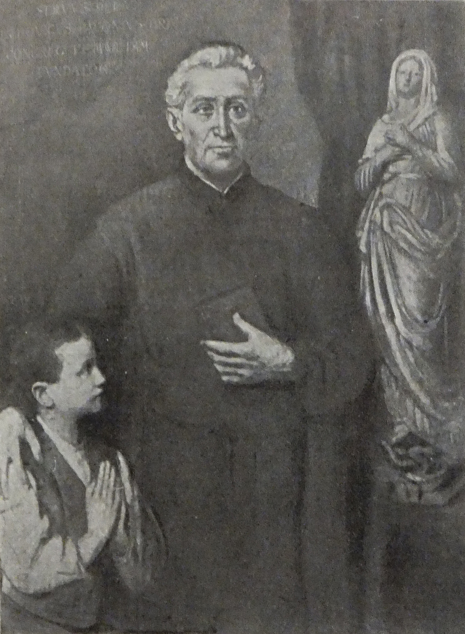 Lodovico Pavoni in a holy card dating 1913